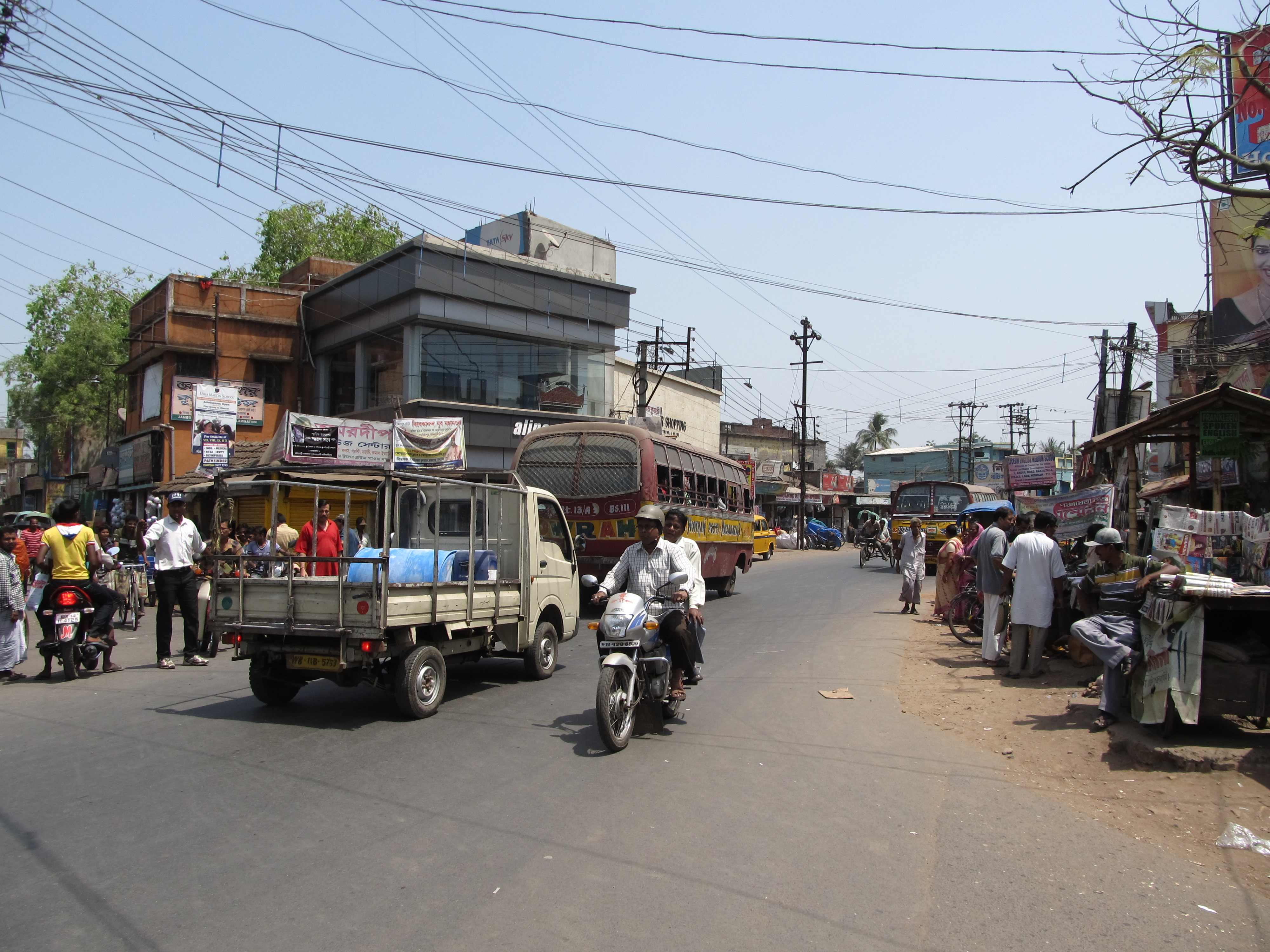 Andul bus stand on Andul road, Howrah.